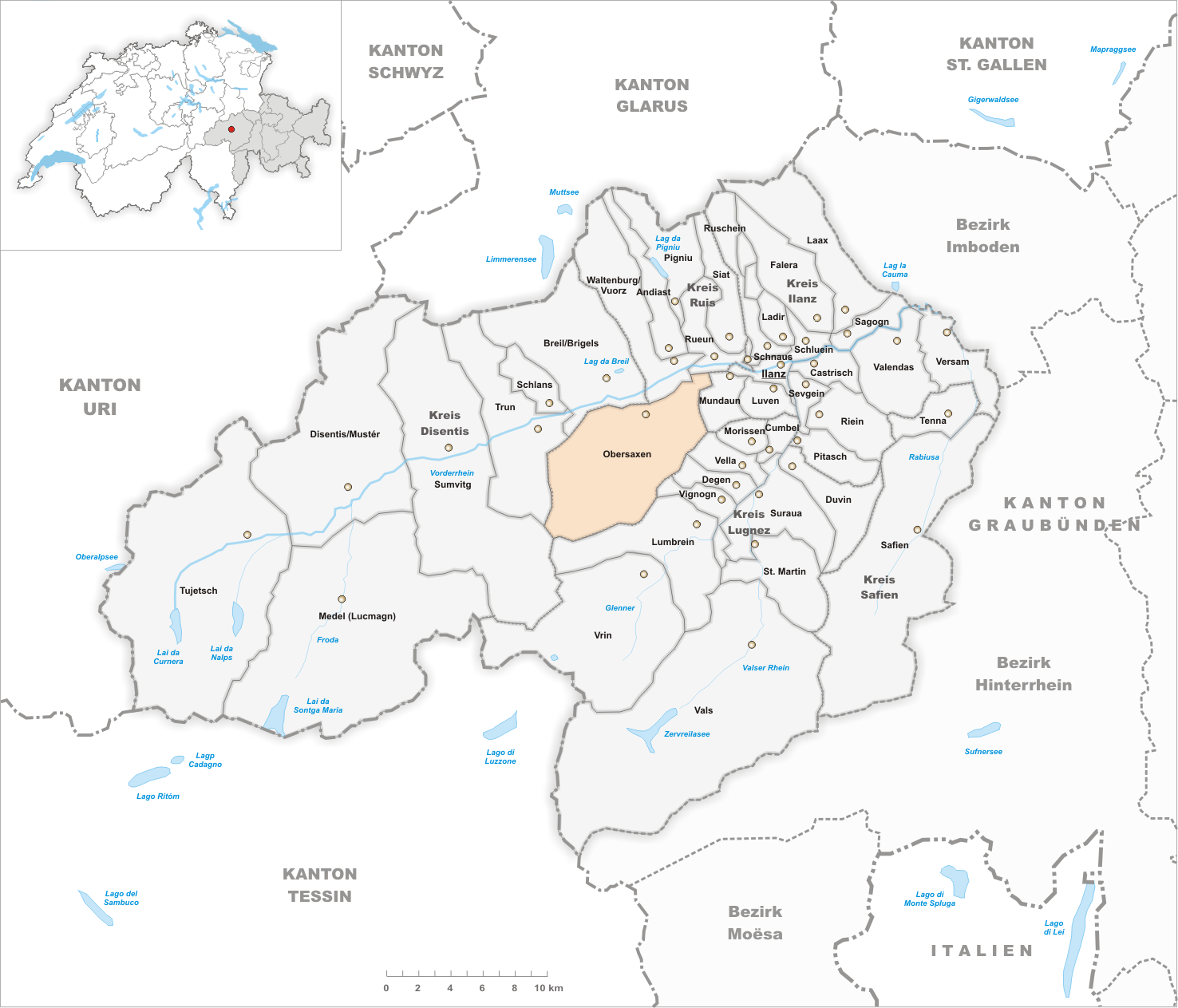 Municipality Obersaxen